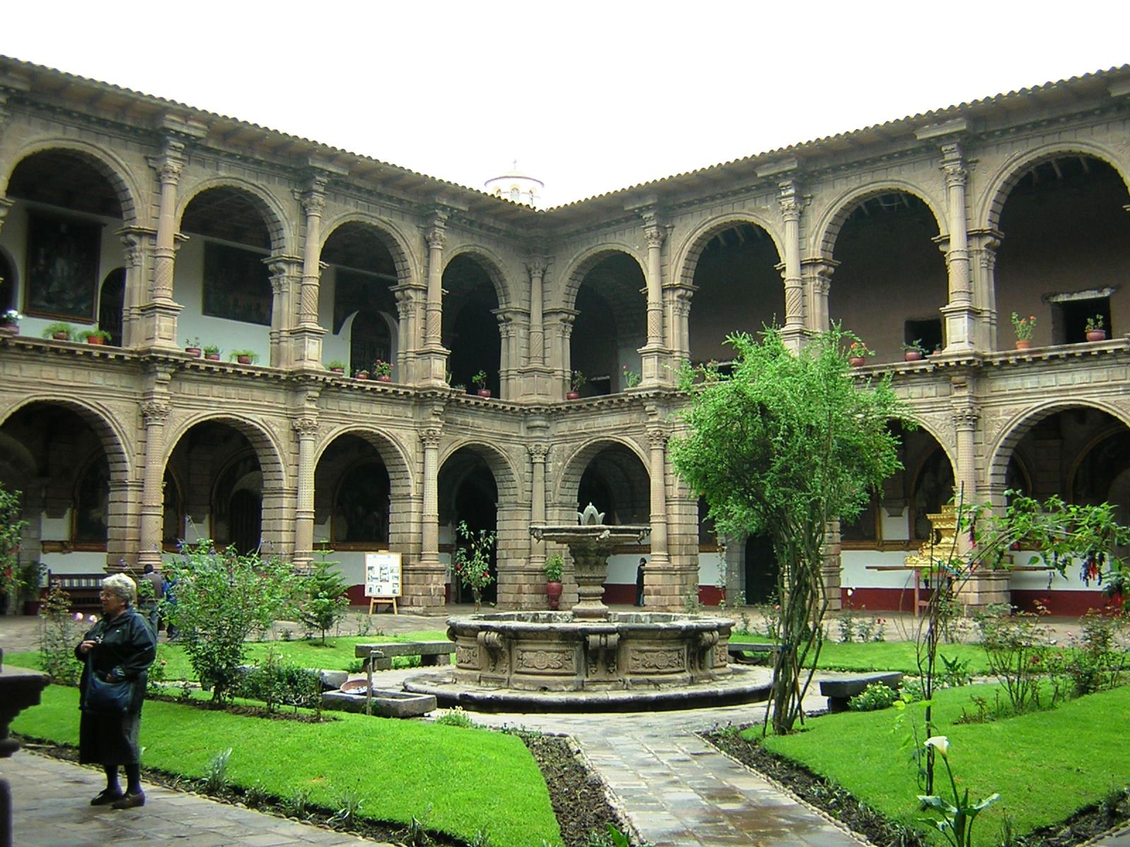 chunch la merced cusco